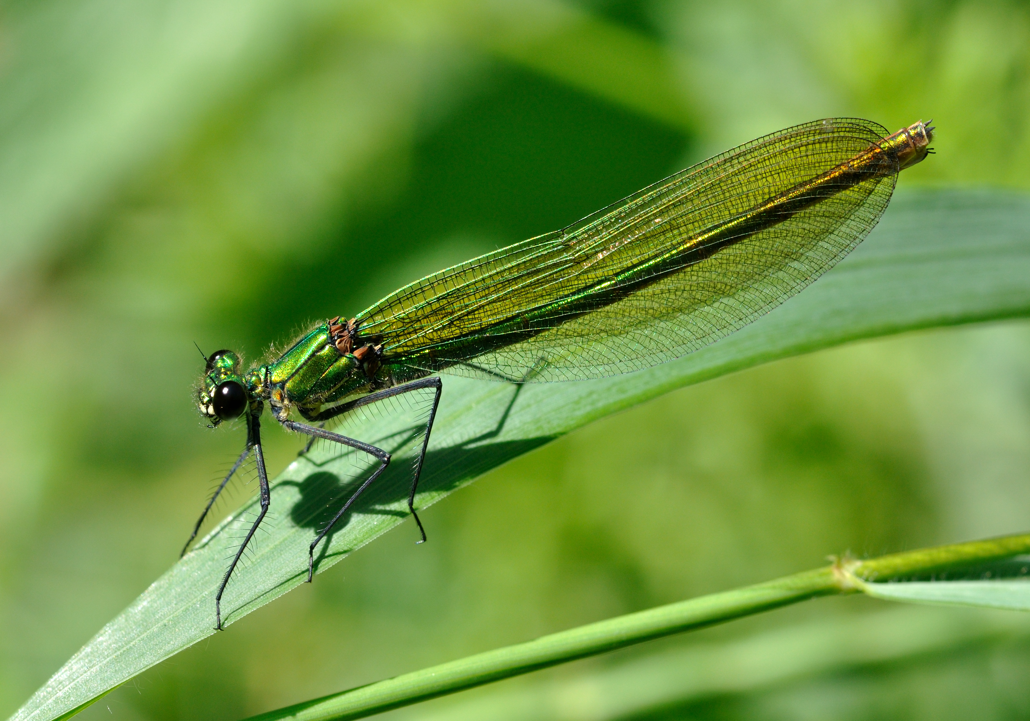 Female Banded Demoiselle (Calopteryx splendens) near the old airstrip, Frankfurt, Germany.